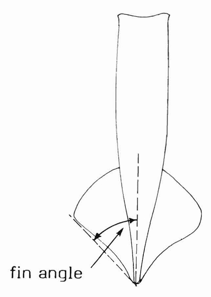 Measurement of fin angle in squid